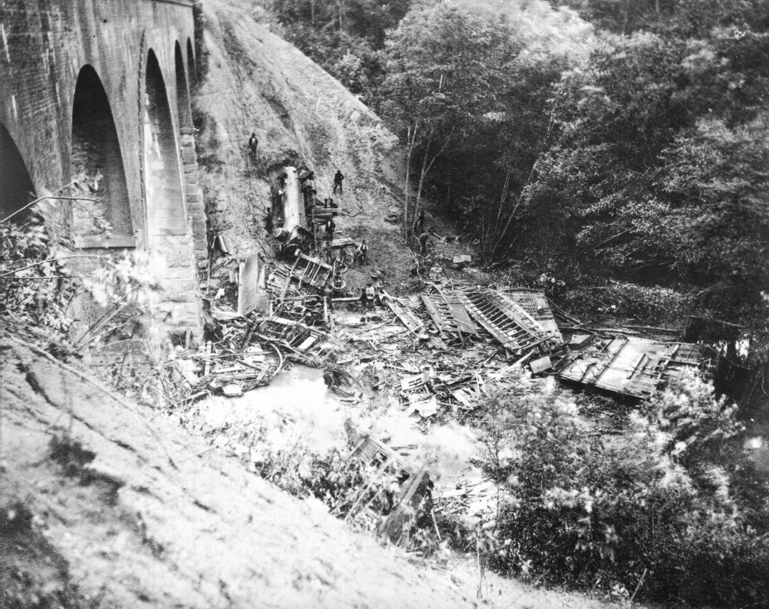 Train Wreck of Bostian Bridge, Iredell County, NC. Wreck occured August 27, 1891, near Statesville. State Archives of North Carolina Raleigh, NC, Reference No N_88_9_13 Bostian Bridge Train Wreck Iredell Co_